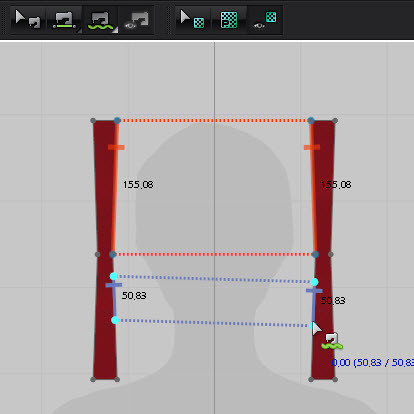 Demonstrating the virtual sewing machines within cloth simulation software such as Marvelous Designer that are used by fashion designers and 3D artists to create digital 3D clothing.